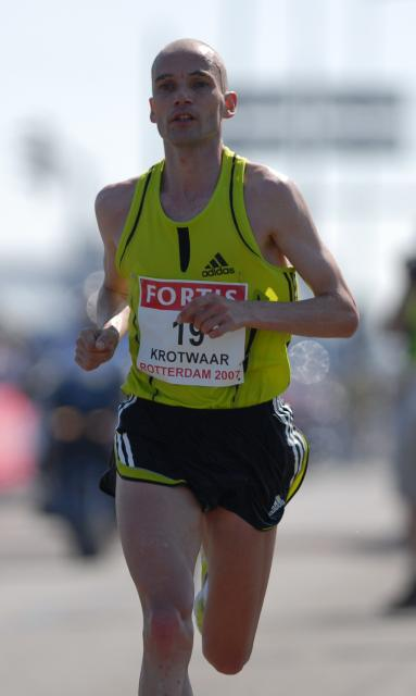 Luc Krotwaar during the Rotterdam Marathon 2007